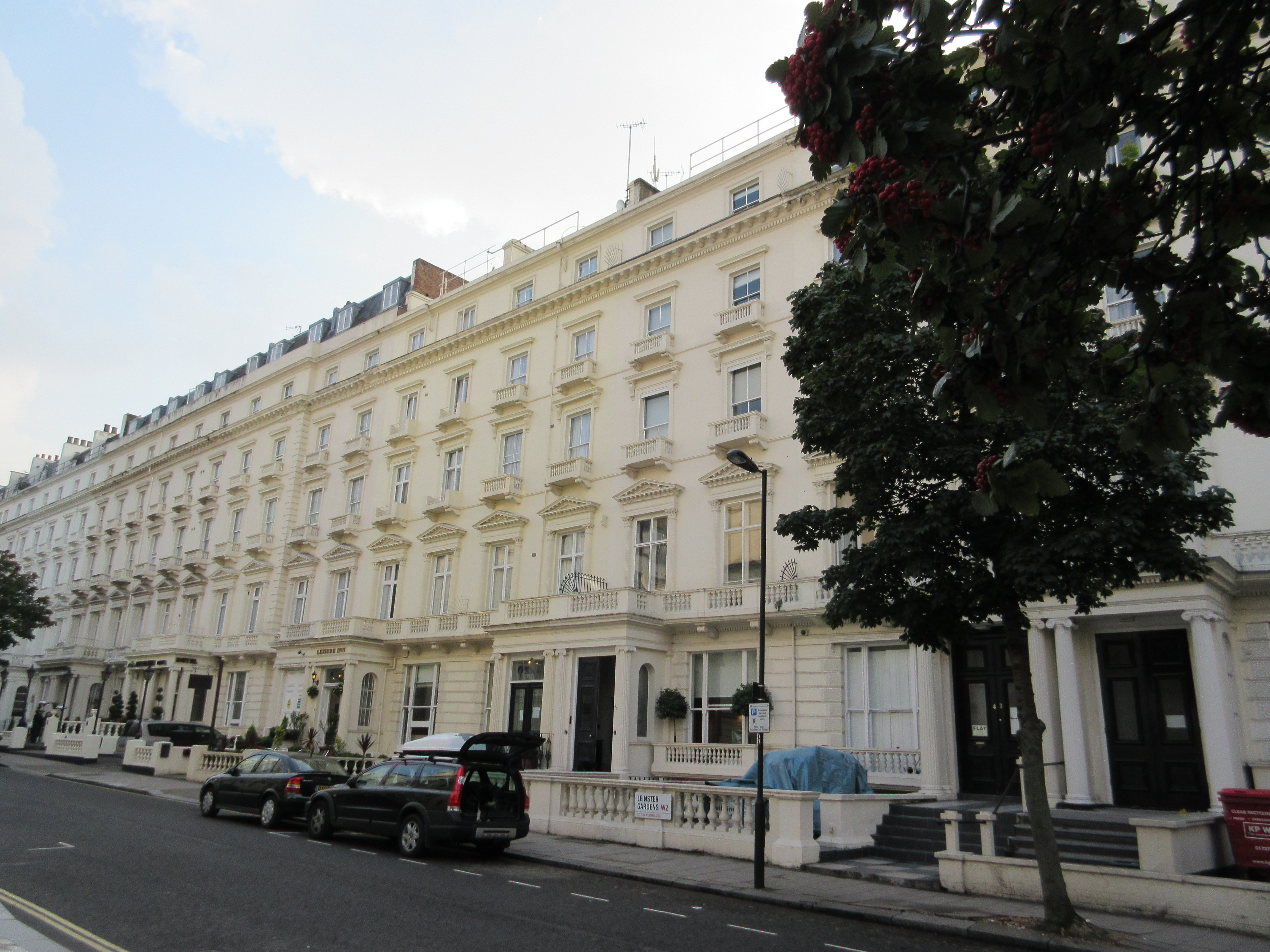 No 41 - 46 Leinster Gardens